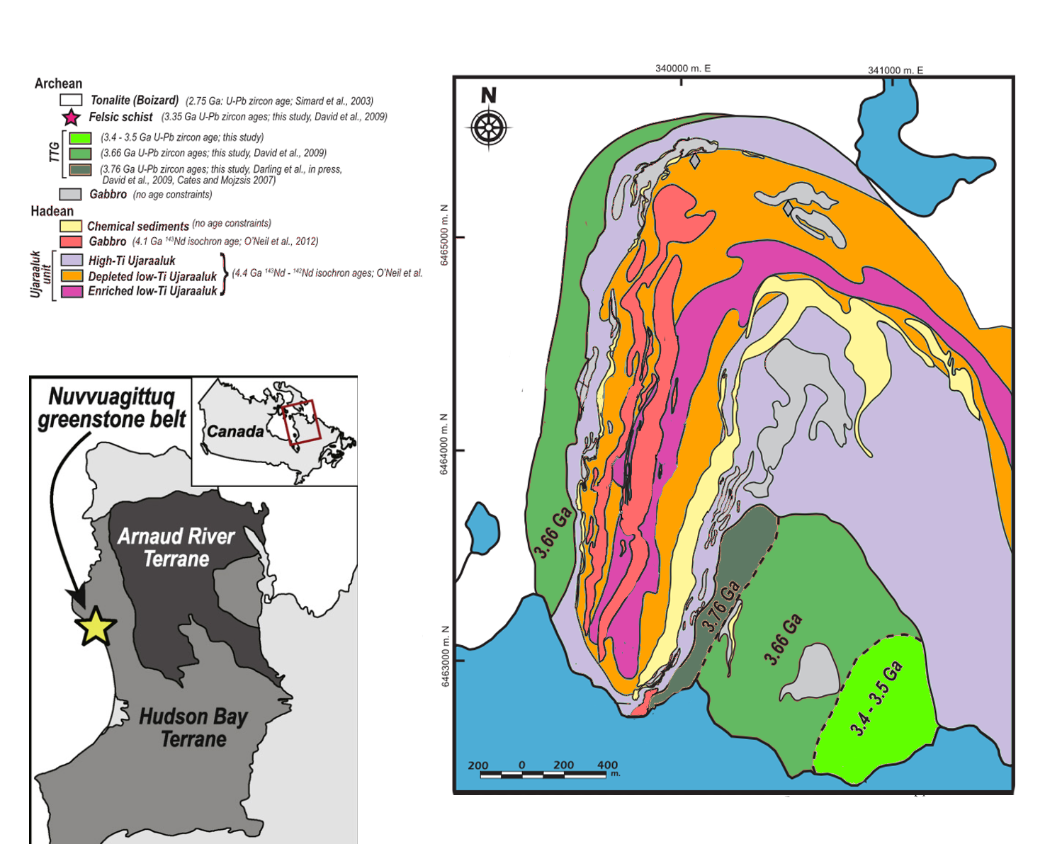 ok